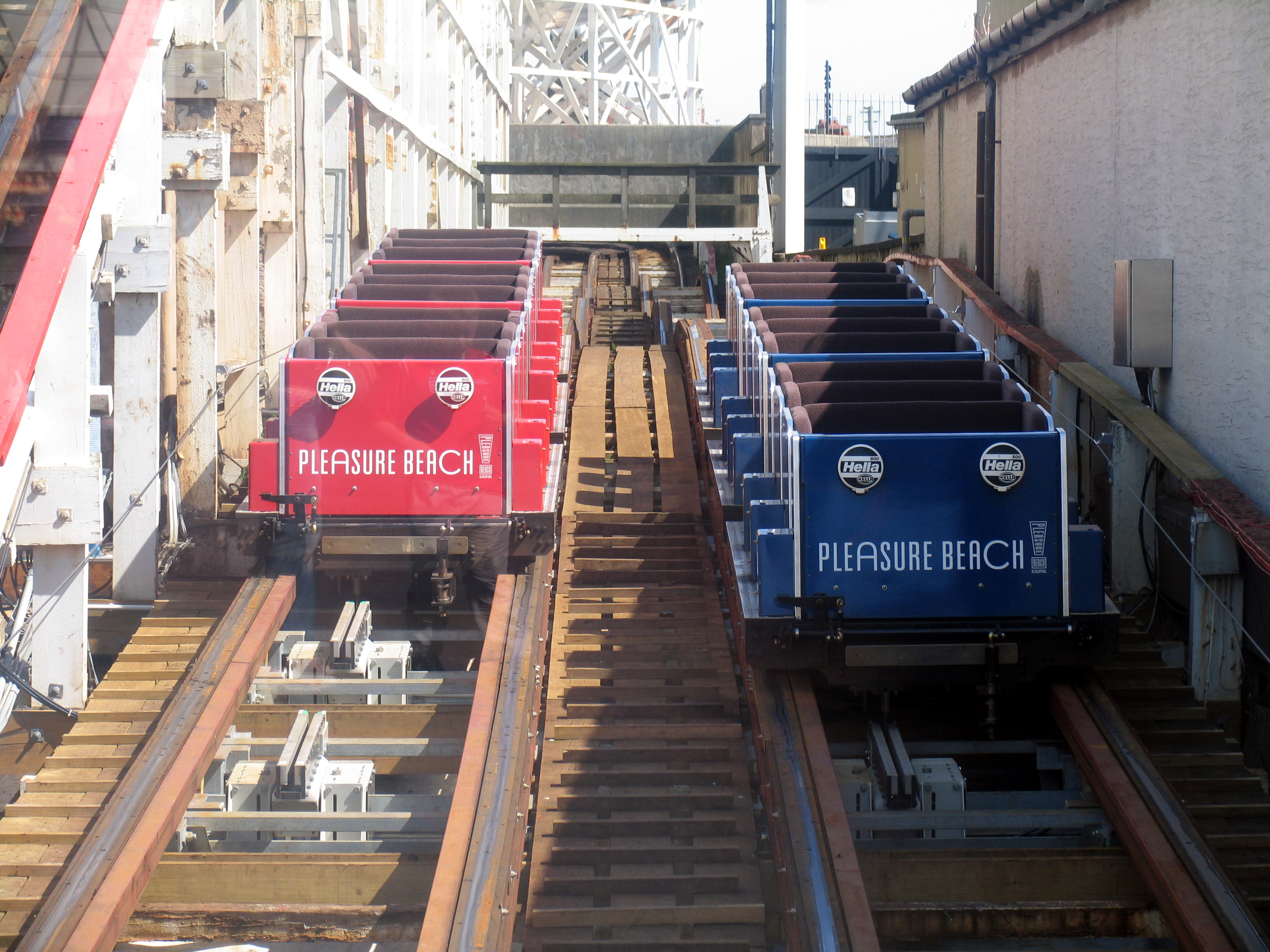 Wooden Coaster Grand National at Blackpool Pleasure Beach